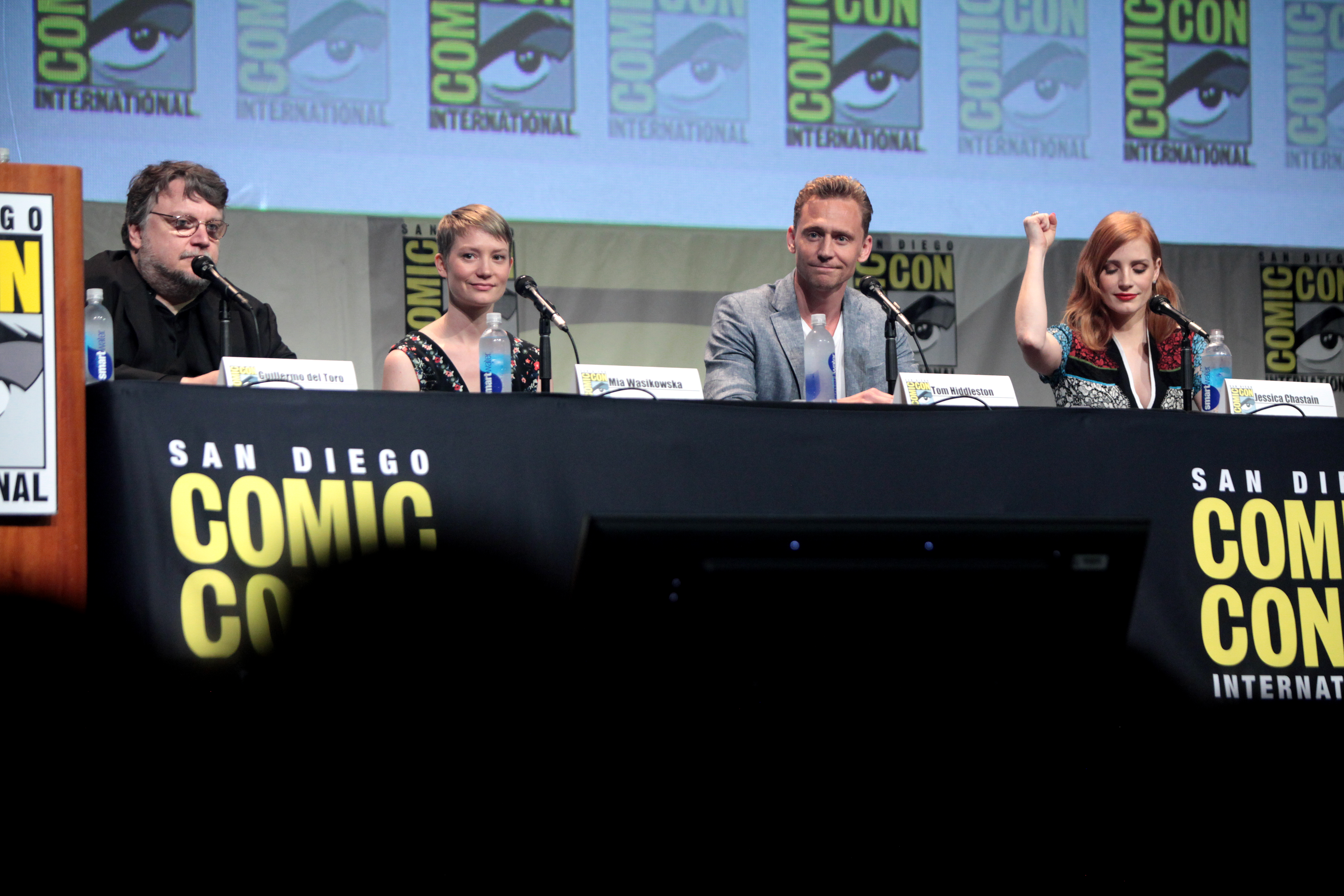 Guillermo del Toro, Mia Wasikowska, Tom Hiddleston and Jessica Chastain speaking at the 2015 San Diego Comic Con International, for "Crimson Peak", at the San Diego Convention Center in San Diego, California.